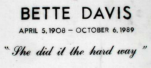 Bette Davis epitaph